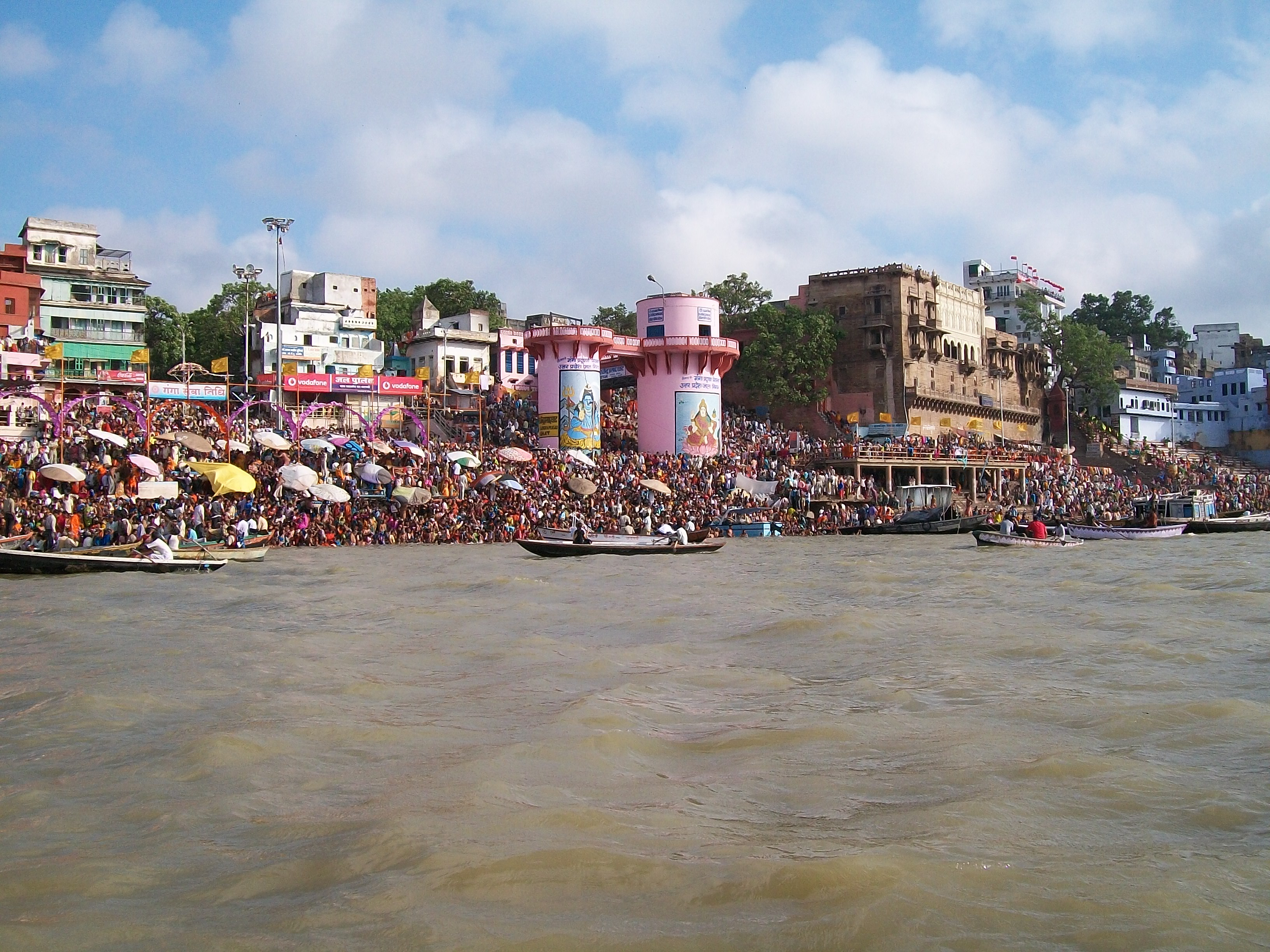 This picture was taken from a boat during the eclipse